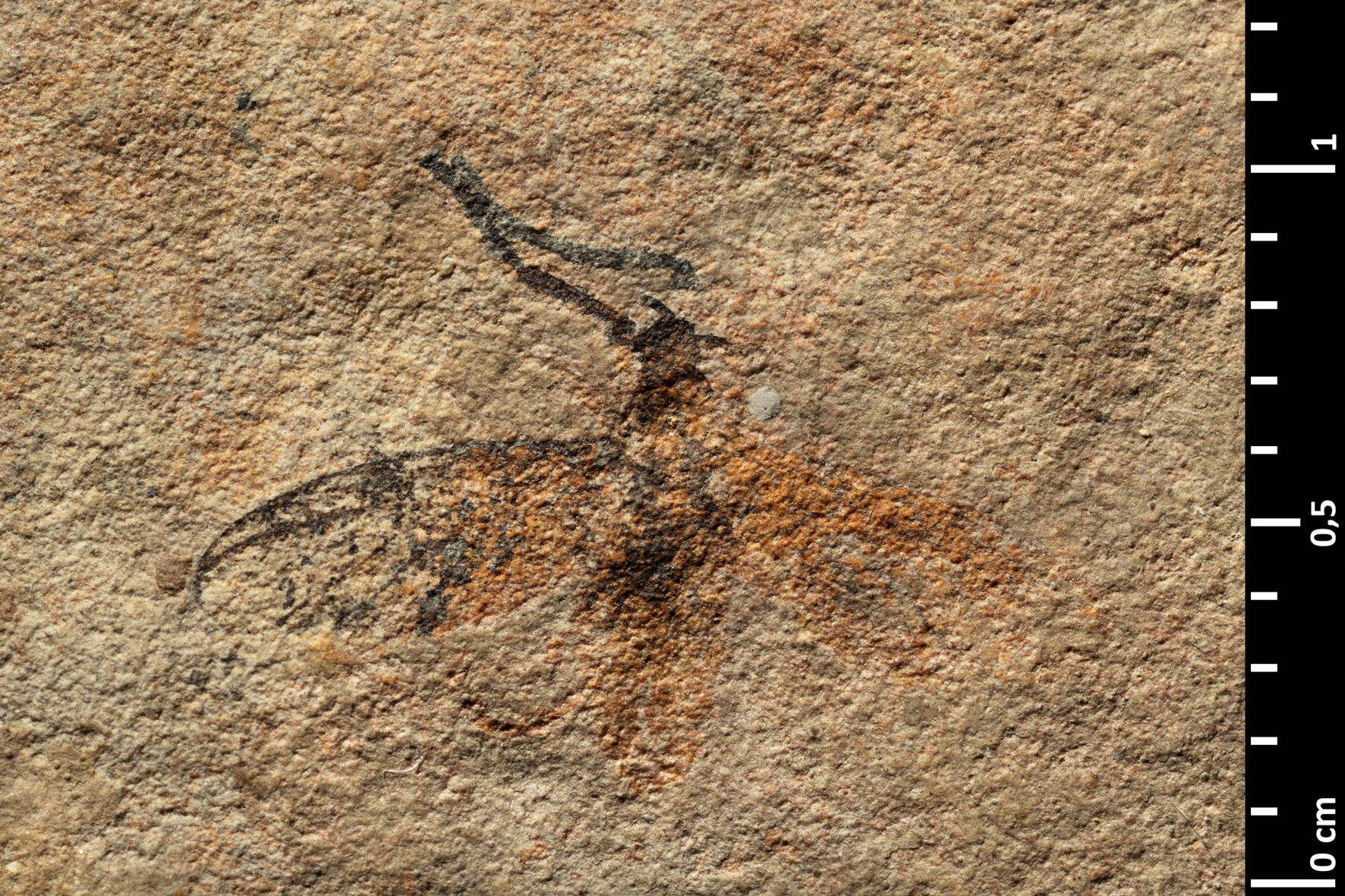 The Plecia larteti (synonym Bibio lartetii) holotype specimen with direct lighting. Rupelian, Oligocene; Corent, Auvergne, France Muséum national d'Histoire naturelle specimen MNHN.F.R06667